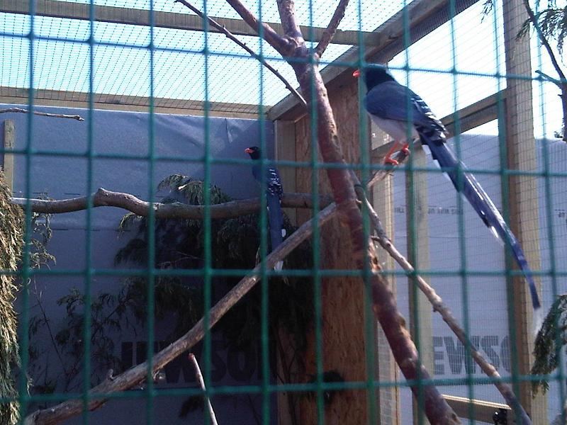 Formosan Blue Magpie (Urocissa caerulea) at Owl and Monkey Haven in Isle of Wight, England.